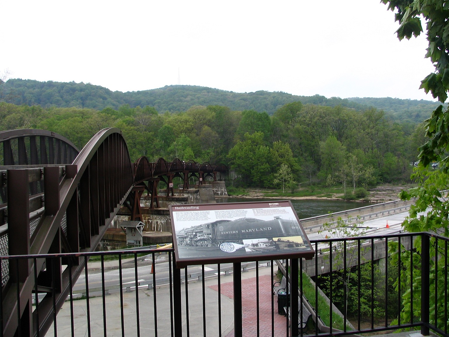 The walking bridge in Ohiopyle State Park. Clinton N. Godlesky. From personal collection.